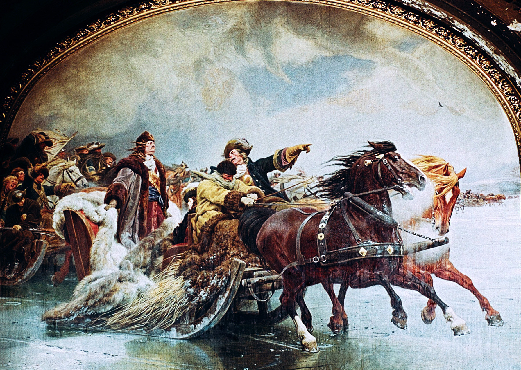 The Crossing of the Curonian Lagoon, 1679. Fresco for the Ruhmeshalle Berlin by Wilhelm Simmler, ca. 1891. Destroyed by bombing ca. 1944. Photo ca. 1943-44. background: Great Sleigh Drive